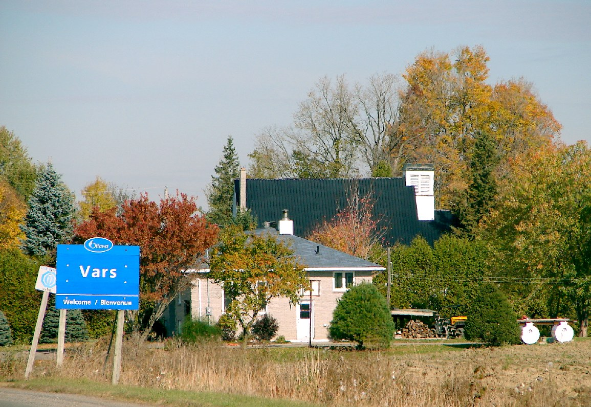 Community of Vars (part of City of Ottawa), Ontario, Canada